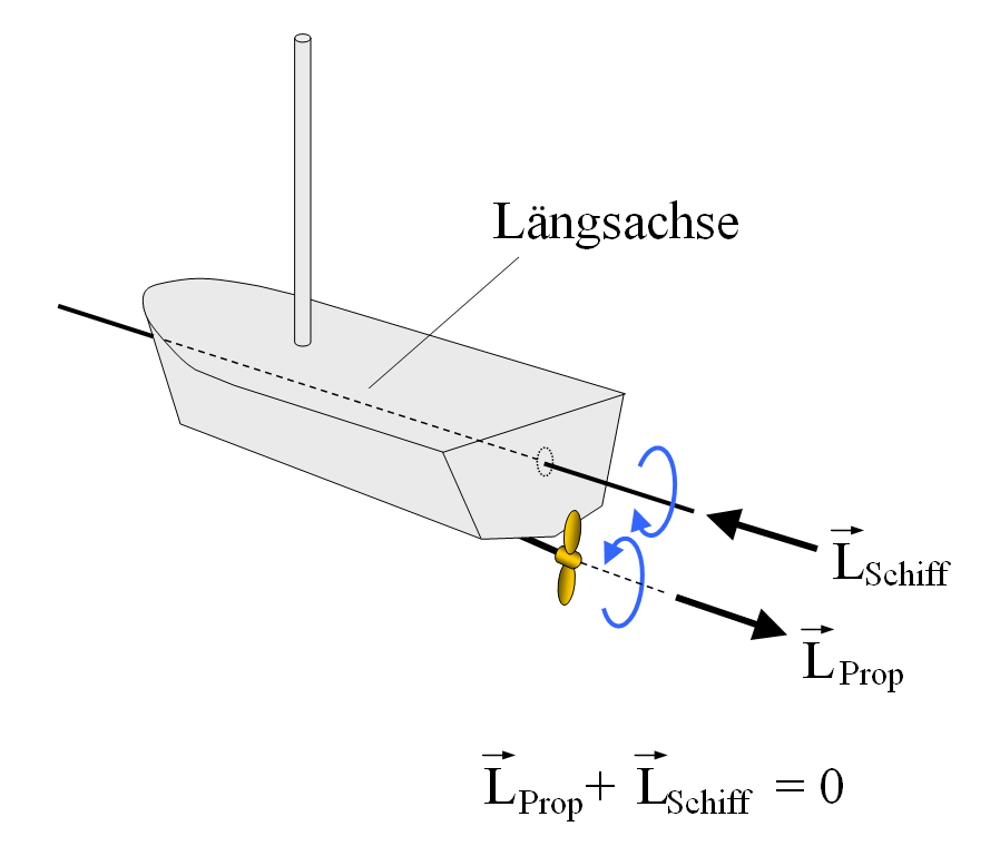 Conservation of angular momentum